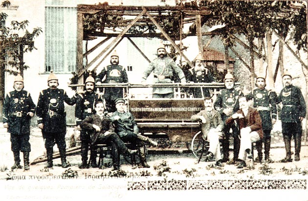 Jewish Firemen in Thessaloniki